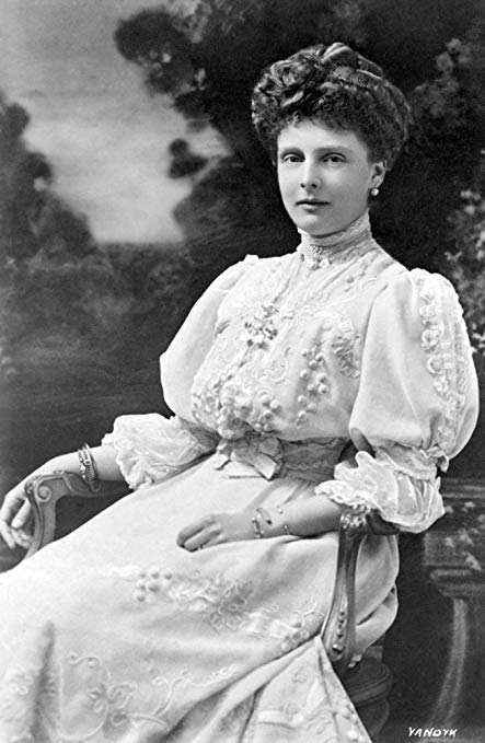 Princess Alice, Countess of Athlone (1883-1981), while known as Princess Alexander of Teck, prior to World War I.